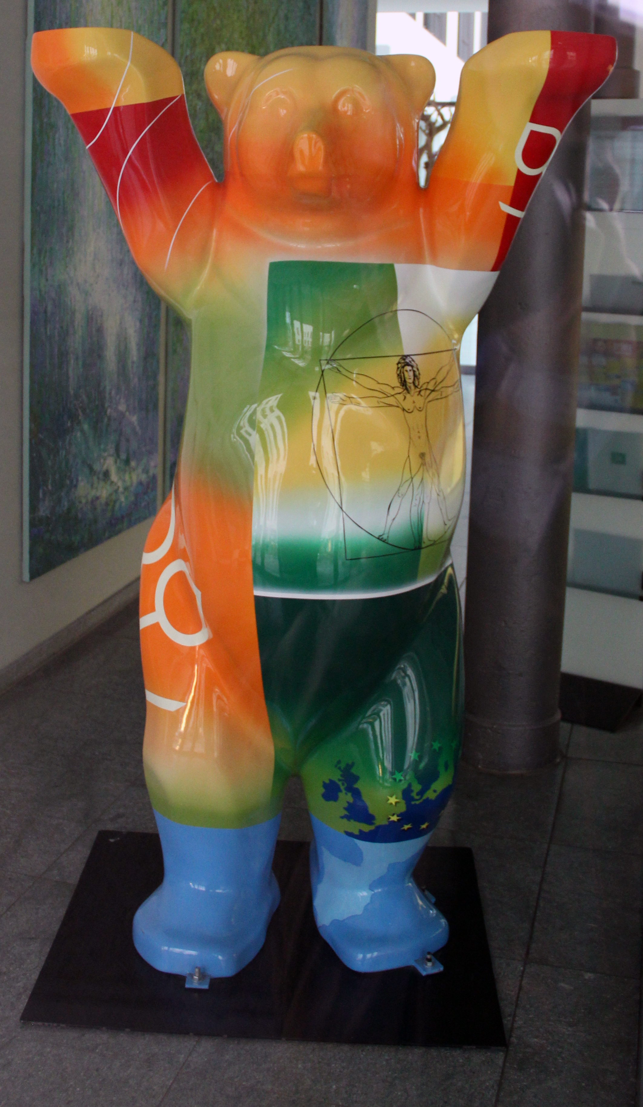 Sculpture, Buddy Bär, Rosenthaler Straße 31, Berlin-Mitte, Germany